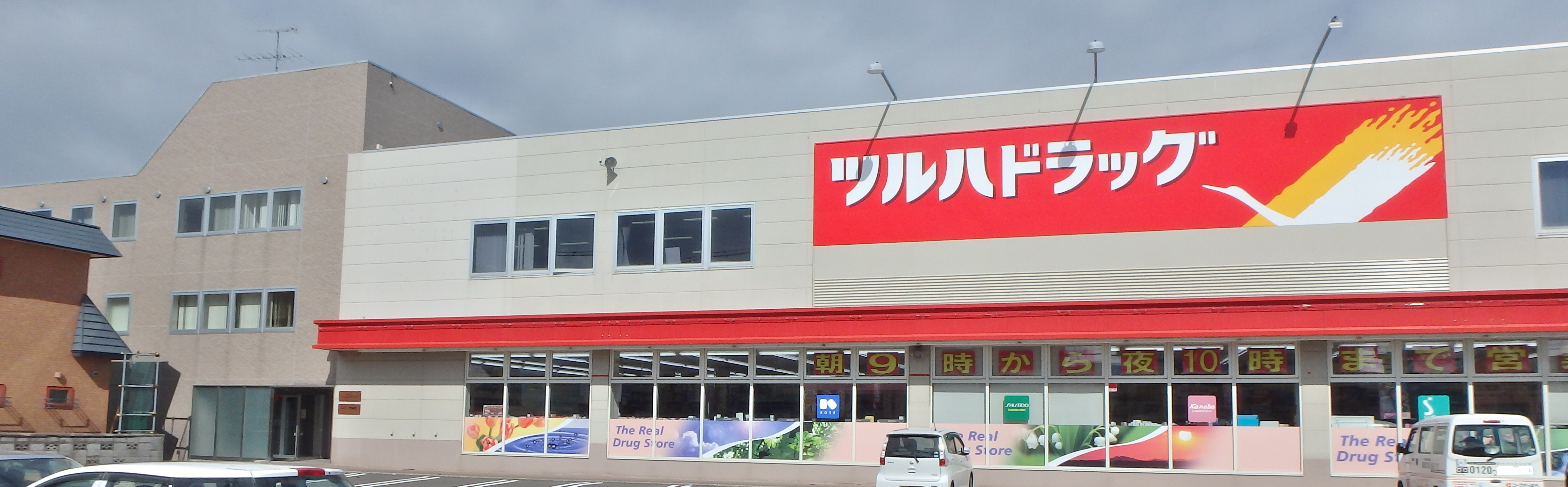 Left:Headquarters of Tsuruha Co.,Ltd.,Hokkaido prefecture,Japan